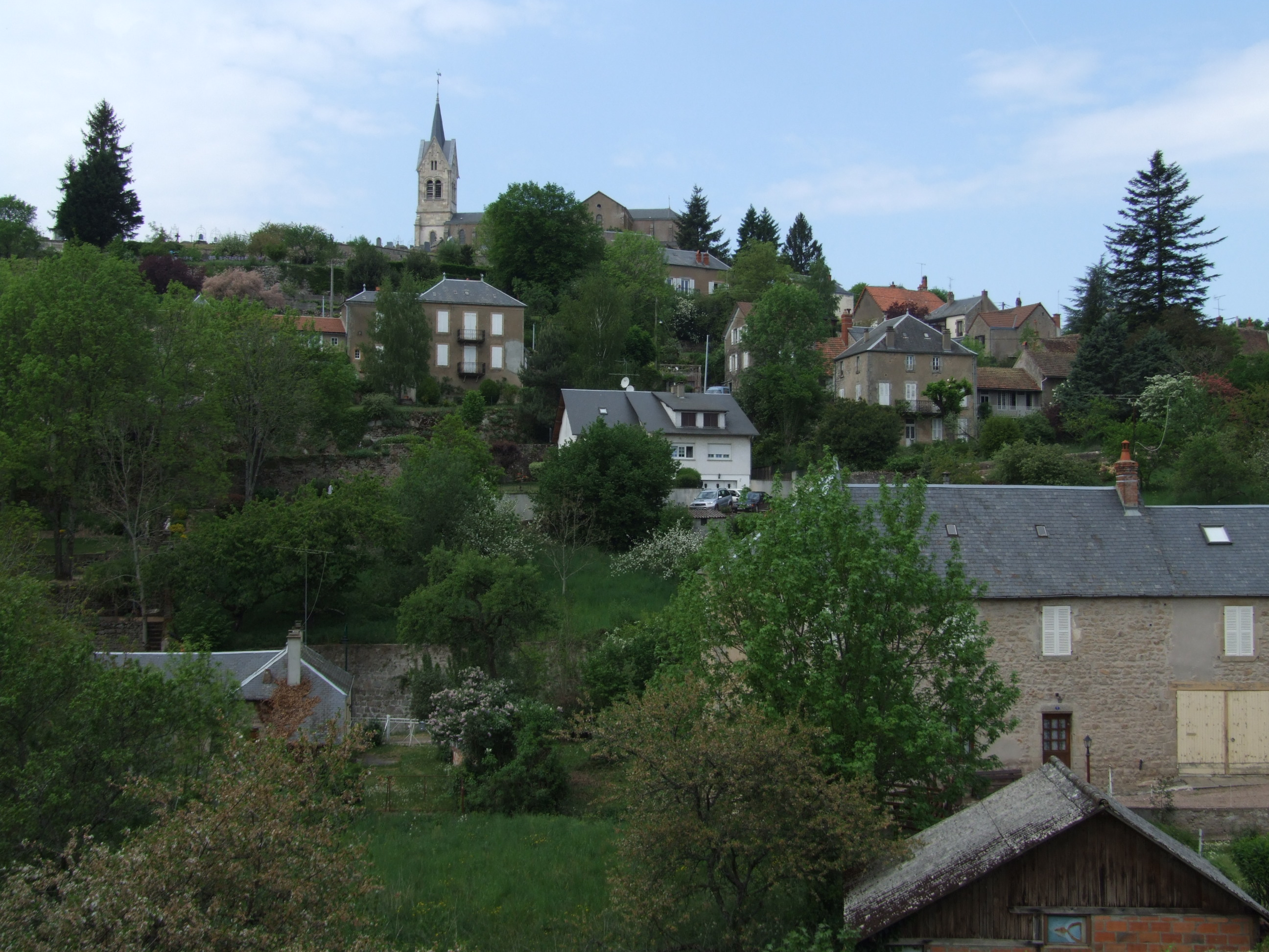 Lormes, Burgundy, FRANCE